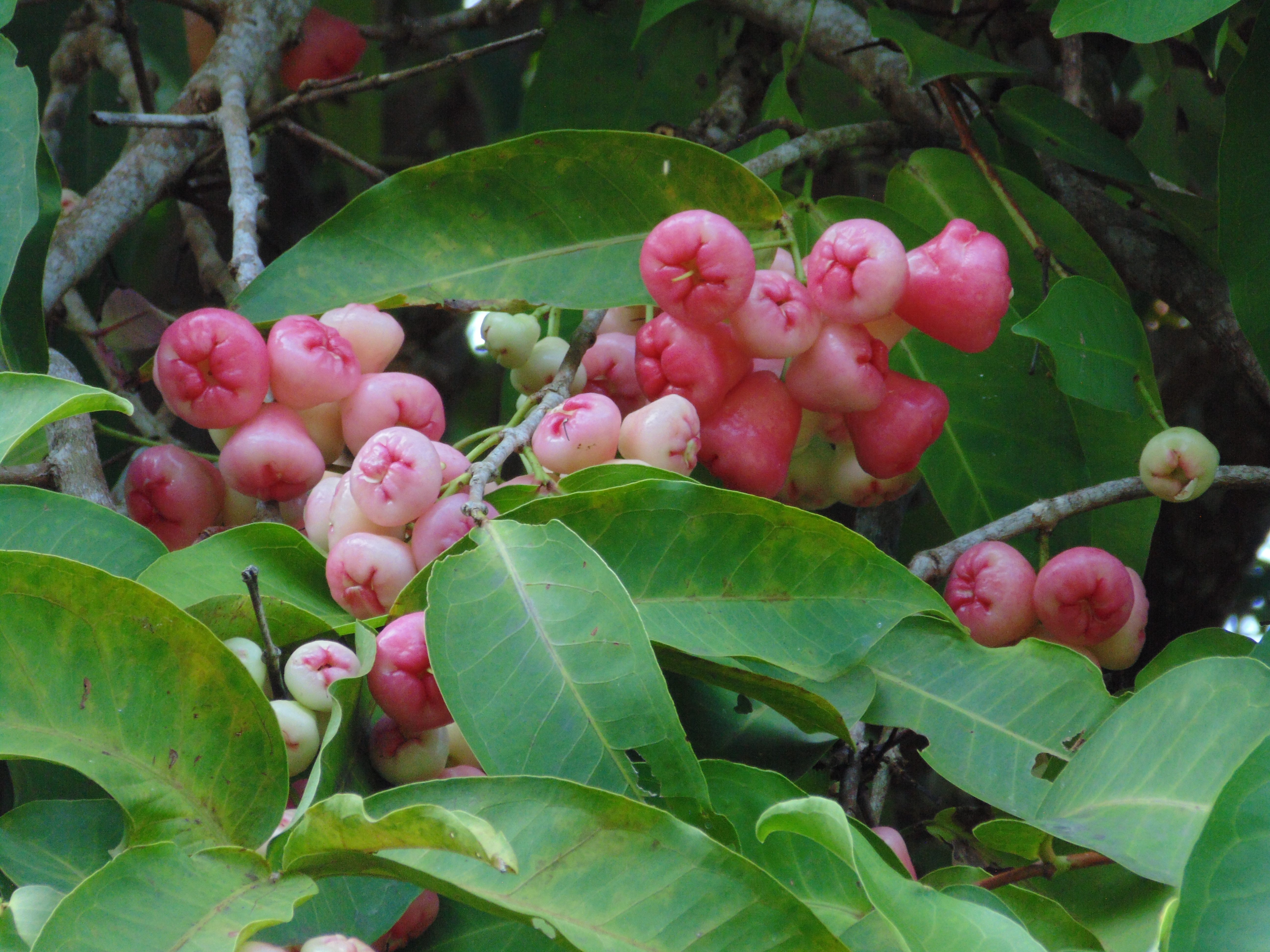 Jardin Du Roi Spice Garden (Mahe)